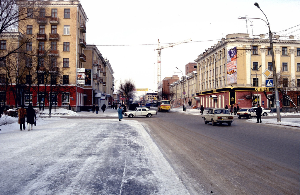 Tyumen (Russia).